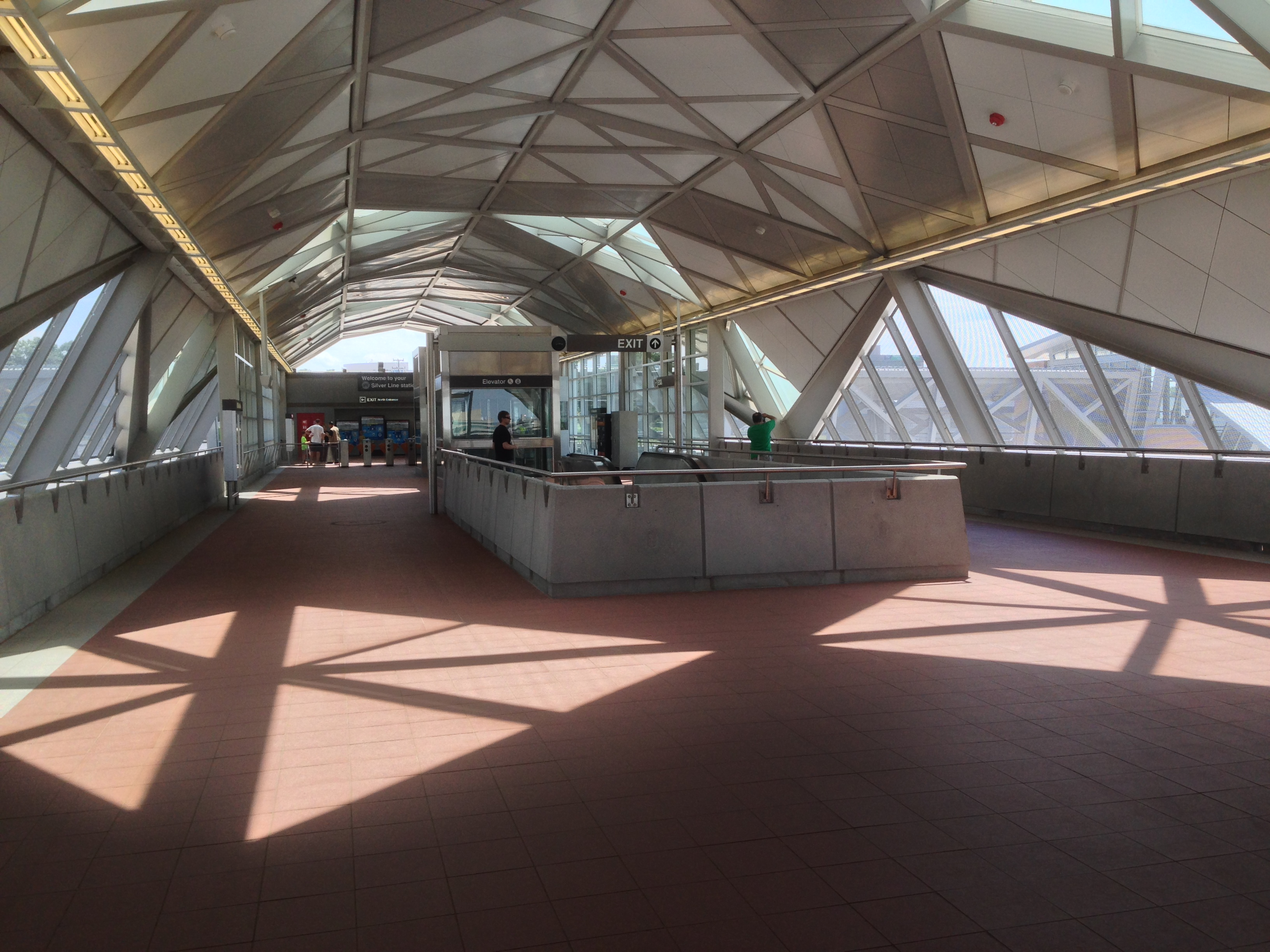 Mezzanine of the Greensboro WMATA station on its first day of operation